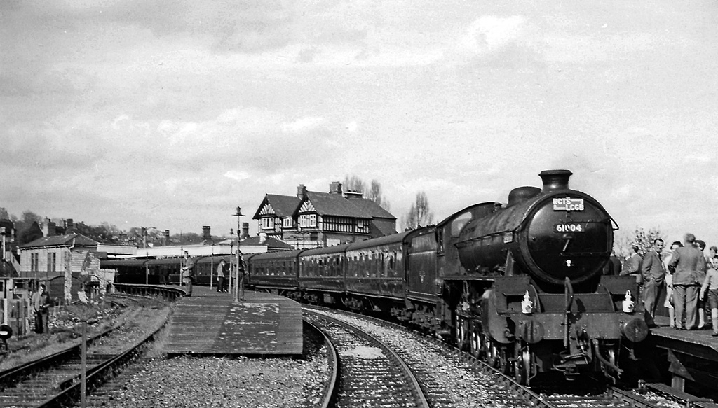 Ashbourne Station, with Rail Tour. Near to Ashbourne, Derbyshire, Great Britain. View northward, towards Buxton; ex-London & North Western line from Buxton, which made end-on connection with the ex-North Stafford line from Uttoxeter. See SK0674 : LNER B1 4-6-0 on turntable at Buxton during 1963 Rail Tour for details of this extraordinary Rail Tour of May 1963: here LNER B1 4-6-0 61004 is our loco, all over the Peak District.